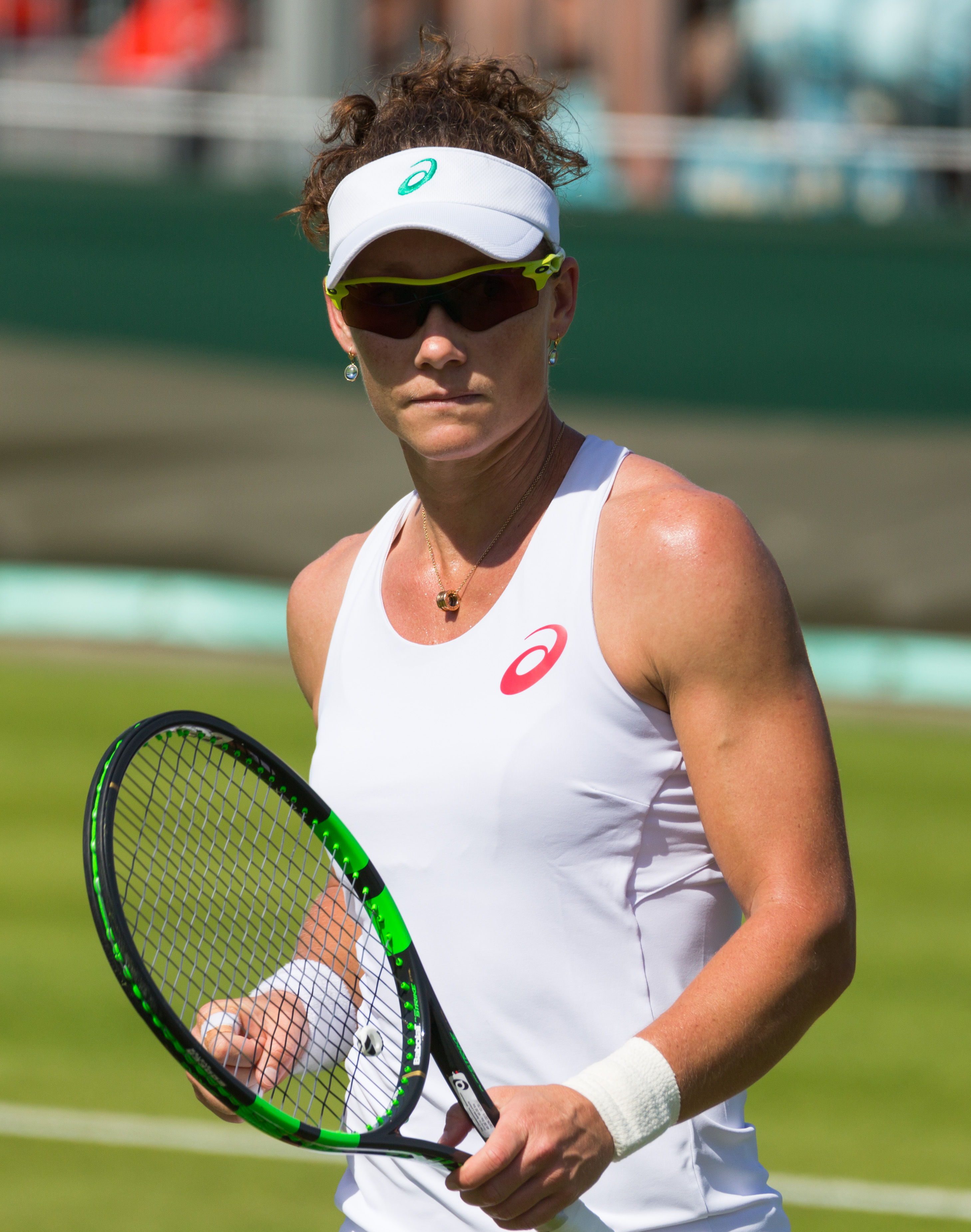 Samantha Stosur competing in the first round of the 2015 Wimbledon Championships.